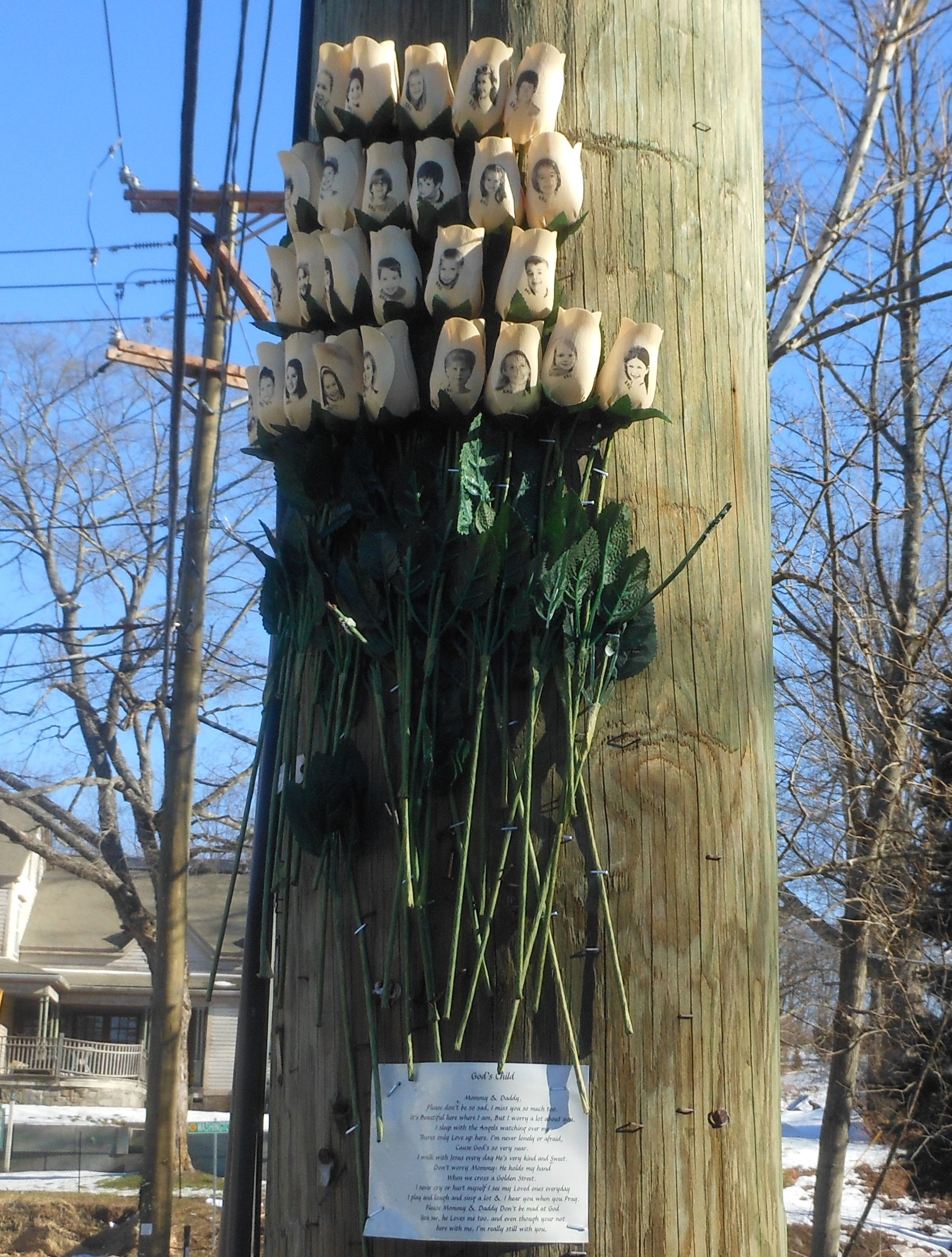 Rose memorial for victims of the Sandy Hook Elementary School Shooting in Newtown, Connecticut.